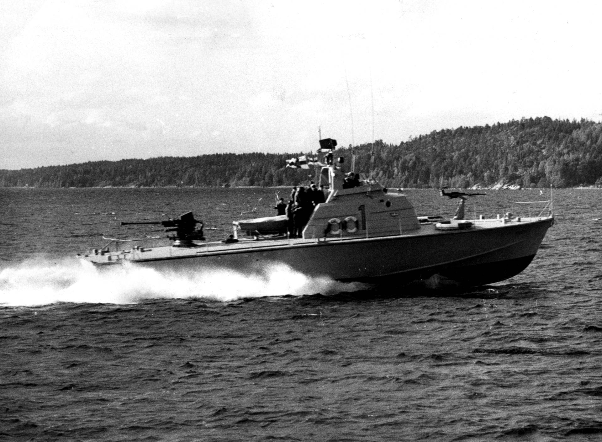 Photograph of a class “Nuoli” gun boat of the Finnish Navy.